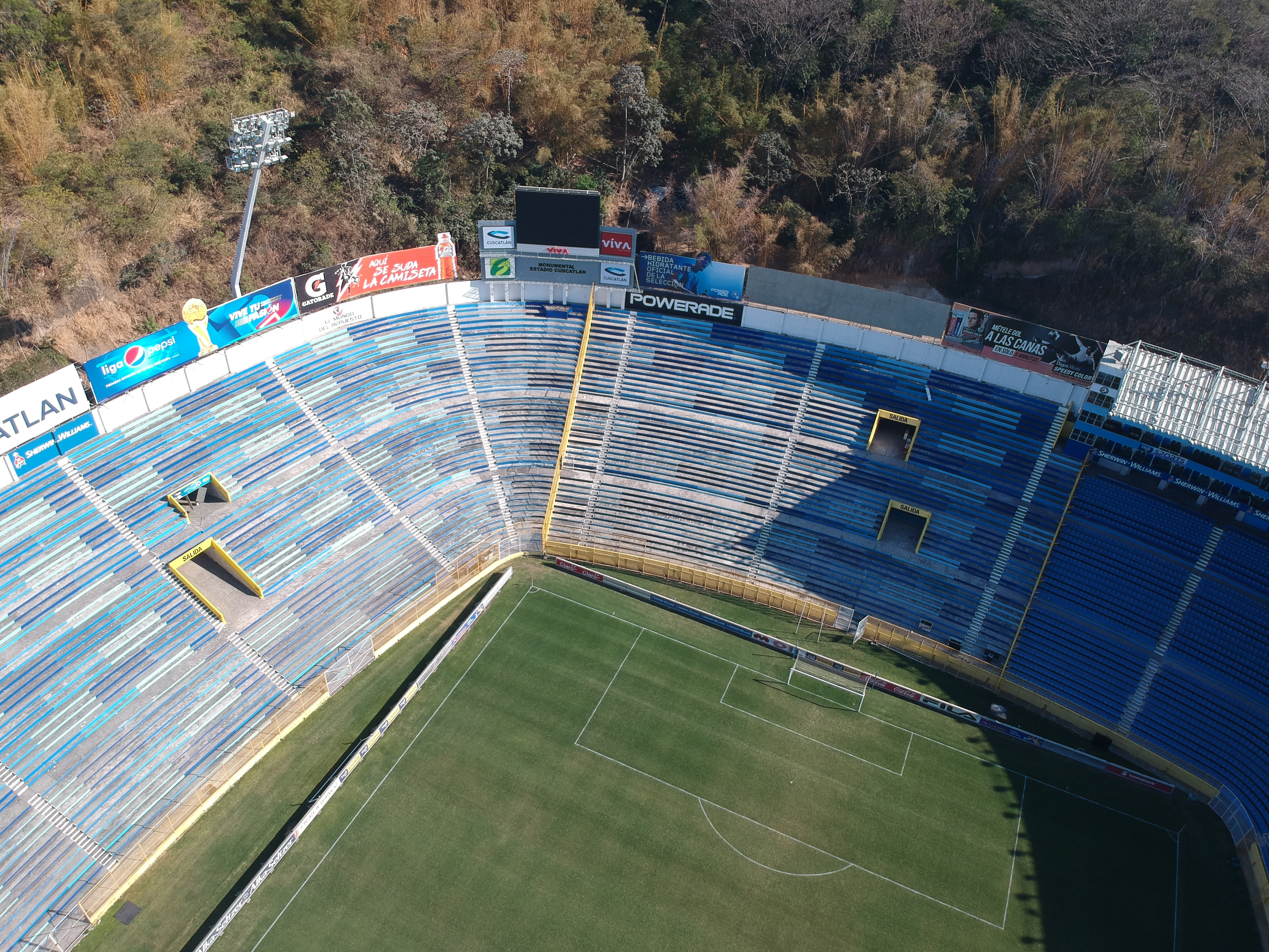 Cuscatlan Stadium